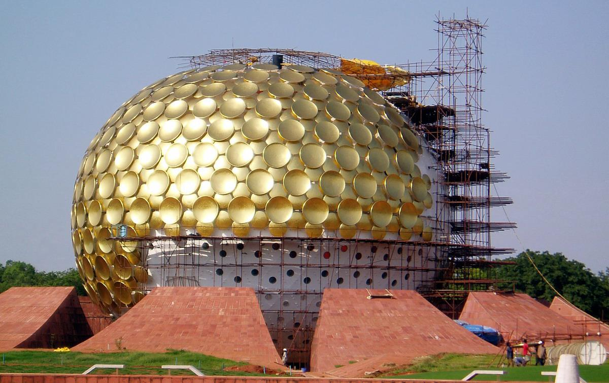 Matrimandir in Auroville